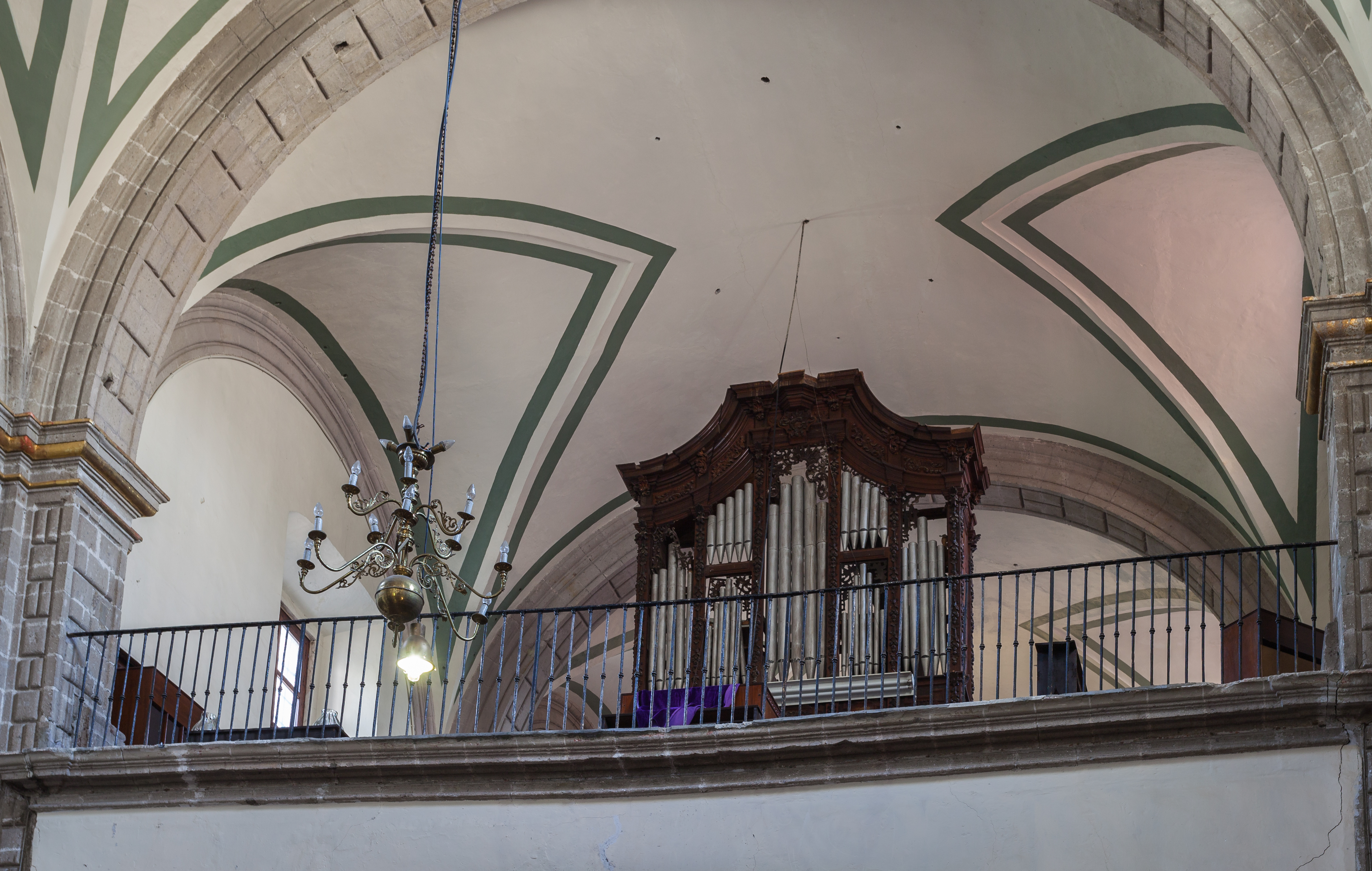 Temple and Church of Regina Coeli, Mexico City, Mexico